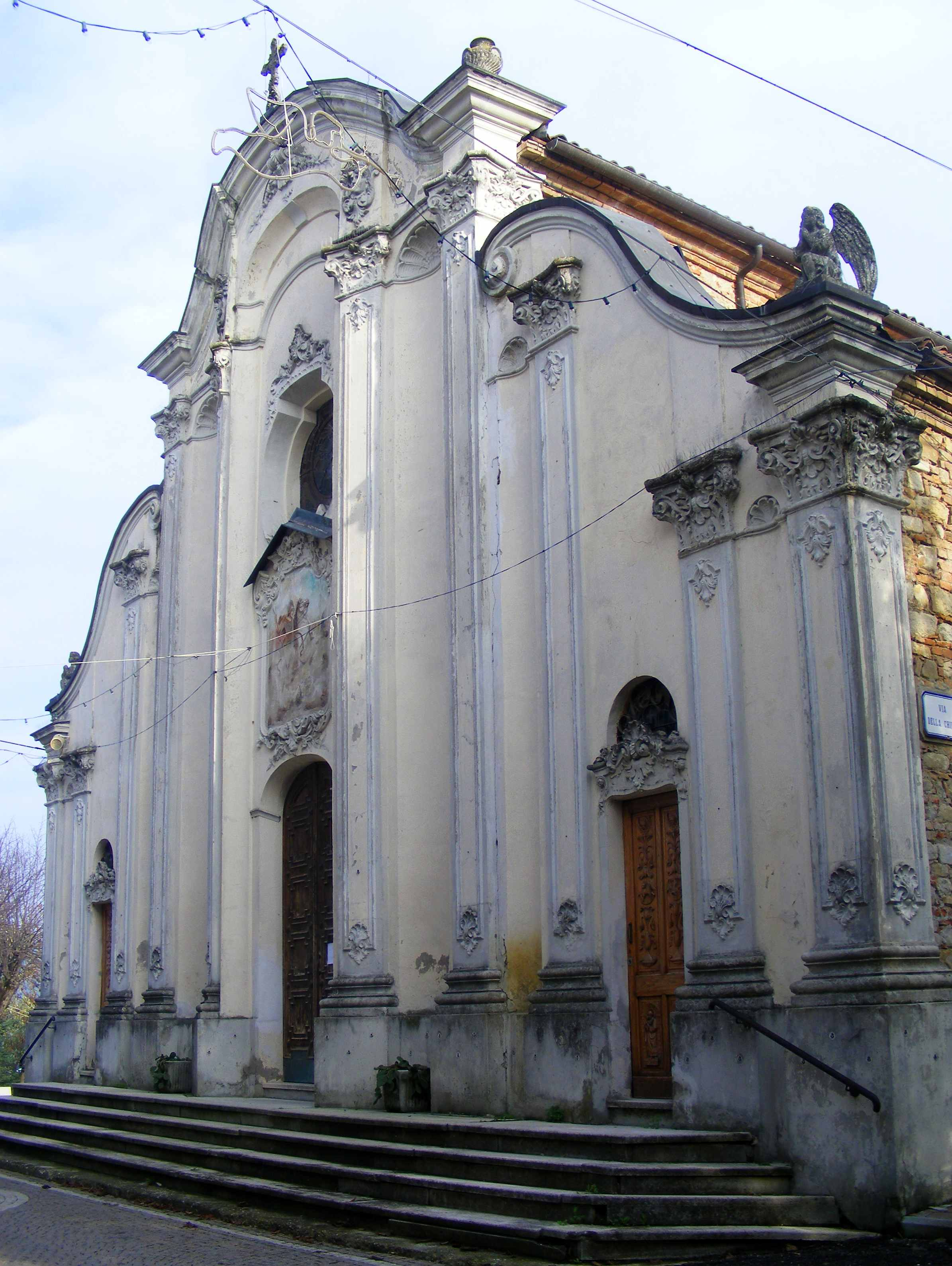 Cerreto Grue (AL, Italy): parish church